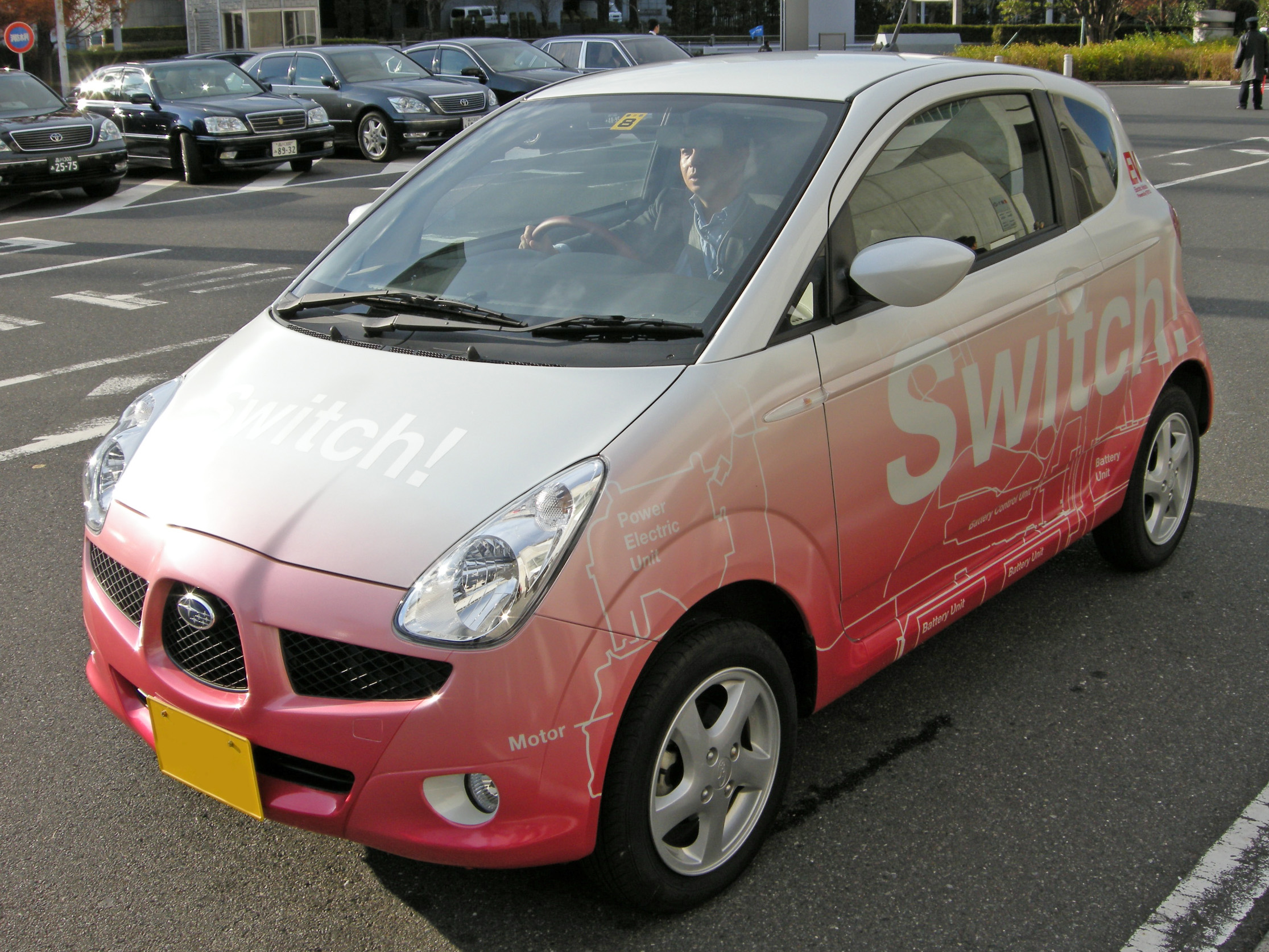 Subaru R1e in Eco Products 2007 at Tokyo Big Sight (Koto, Tokyo)